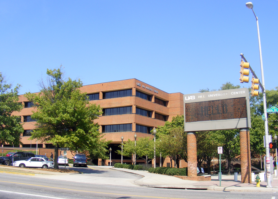 Hill University Center at the University of Alabama at Birmingham (UAB), built in 1983 as University Center. Renamed in 1991 to honor former university president S. Richardson Hill. Closed and demolished in fall 2013. The larger Hill Student Center, occupying the same site, was completed in December 2015. [Source: Bhamwiki